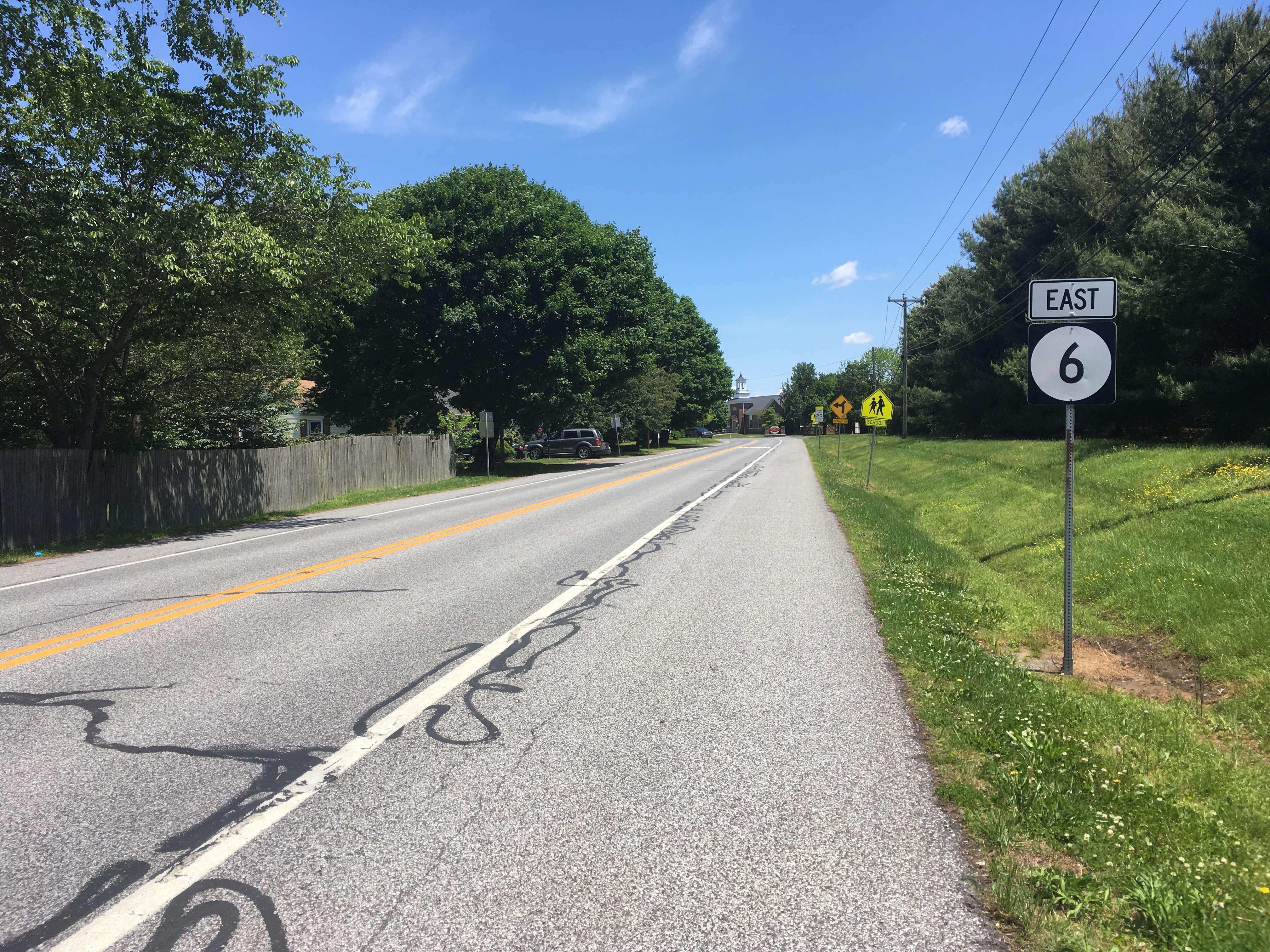 Eastbound Delaware Route 6 (Millington Road) past the intersection with Delaware Route 15 (Duck Creek Road) in Clayton, Delaware